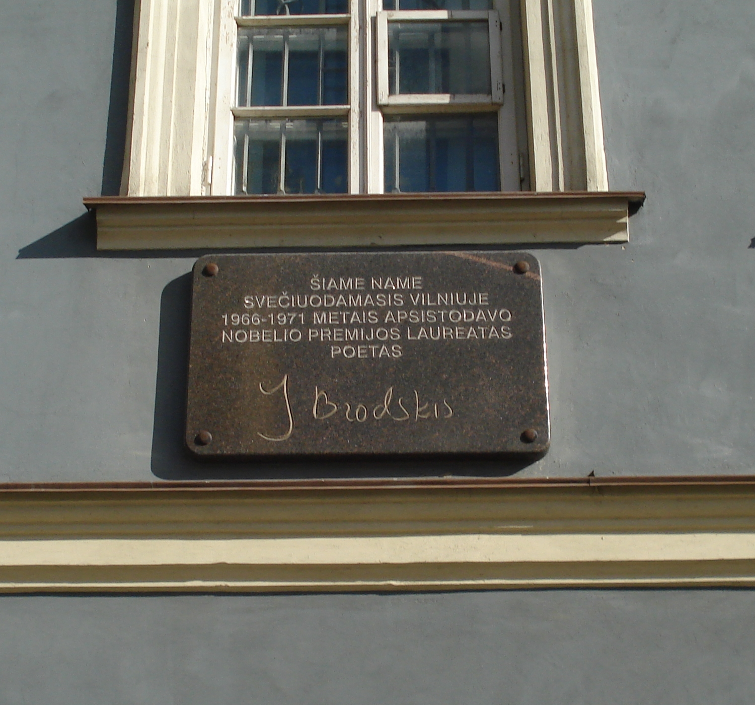 memorial tablet Joseph Brodsky in Vilnius